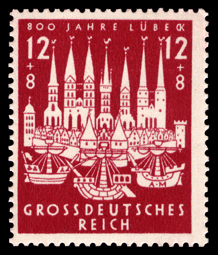 800 years of Lübeck Graphics by Alfred Mahlau Ausgabepreis: 12+8 Pfennig First Day of Issue / Erstausgabetag: 24. Oktober 1943 Michel-Katalog-Nr: 862 (Deutsches Reich)